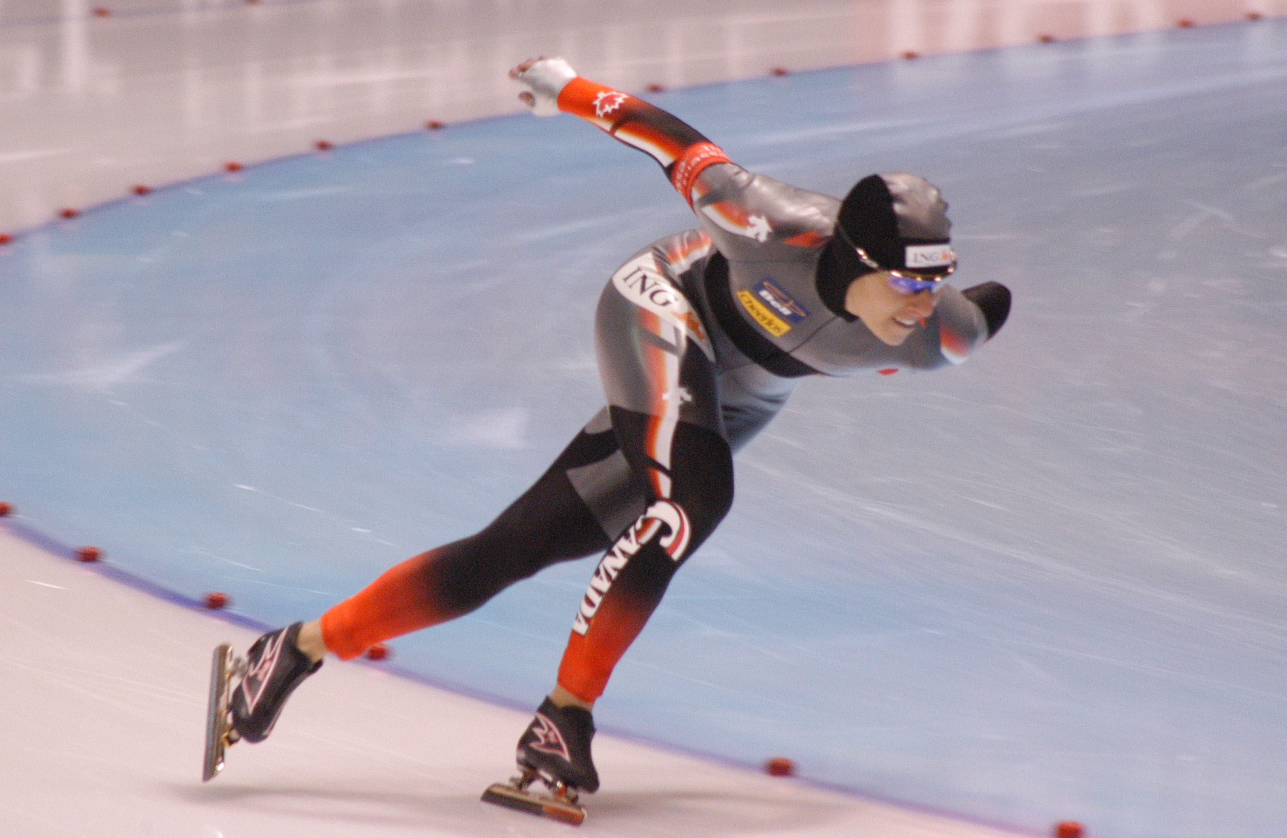 Shannon_Rempel (CAN) in action at a World Cup Speed Skating in Heerenveen, the Netherlands.